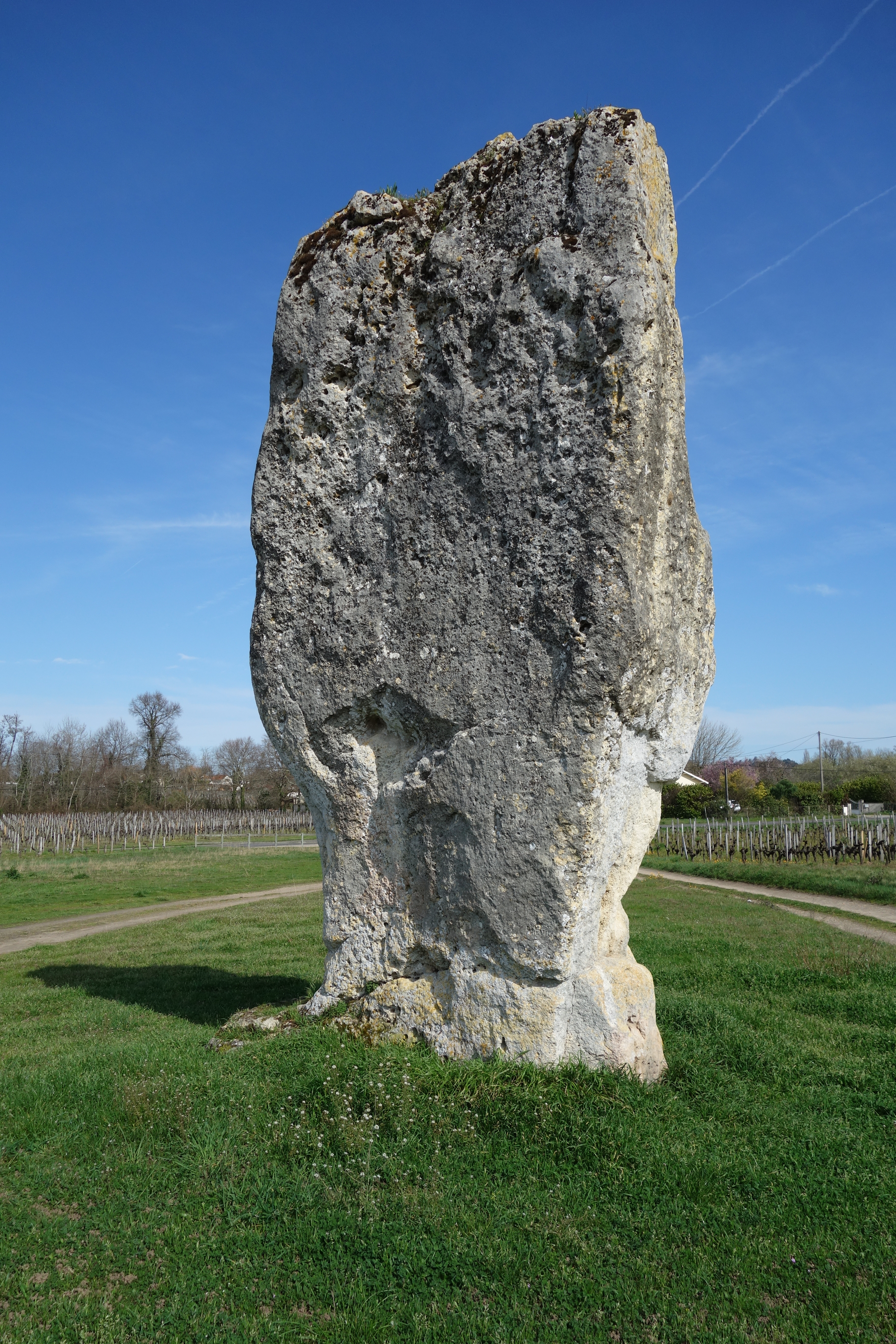 Menhir de Peyrefitte (Saint-Sulpice-de-Faleyrens)